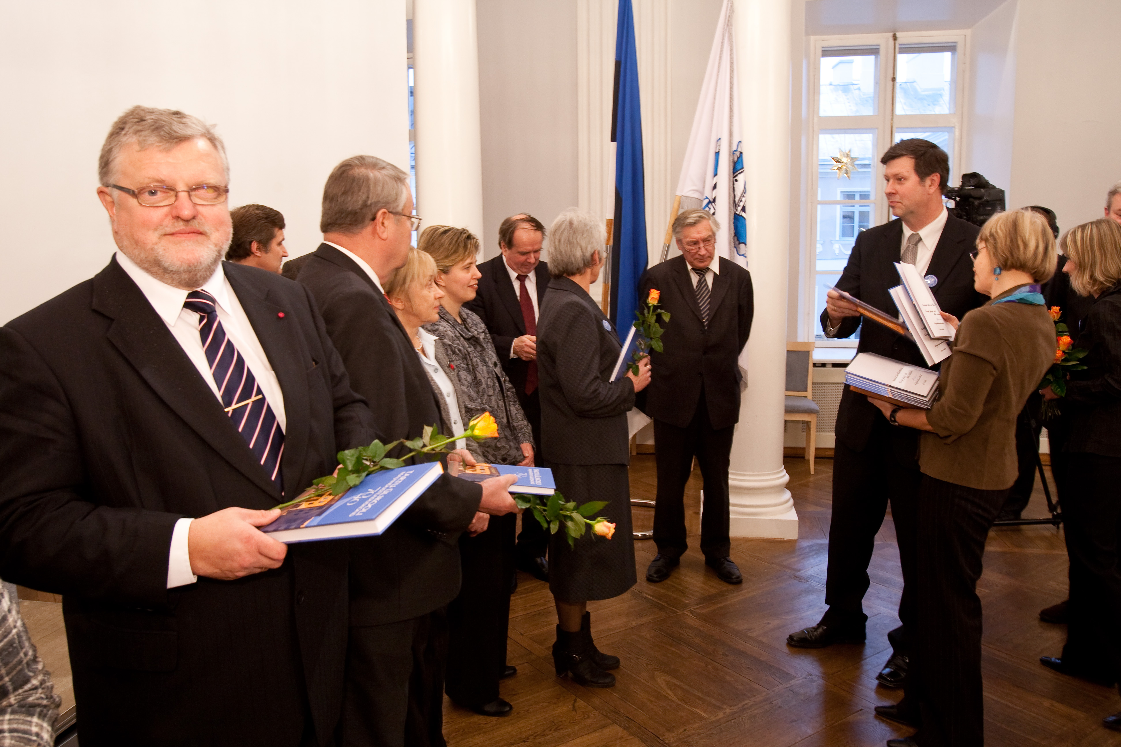 29. novembril 2008 tähistas TÜ majandusteaduskond olulisi sündmusi - 70 aastat TÜ majandusteaduskonna loomisest ja 40 aastat teistkordsest iseseisvumisest. 29. novembril 2008 toimus TÜ aulas aktus „Majandusteaduskond: eilsest homsesse“ ja raamatu “Majandusteaduskond 70/40” esitlus. Pildil Janno Reiljan (vasakul).